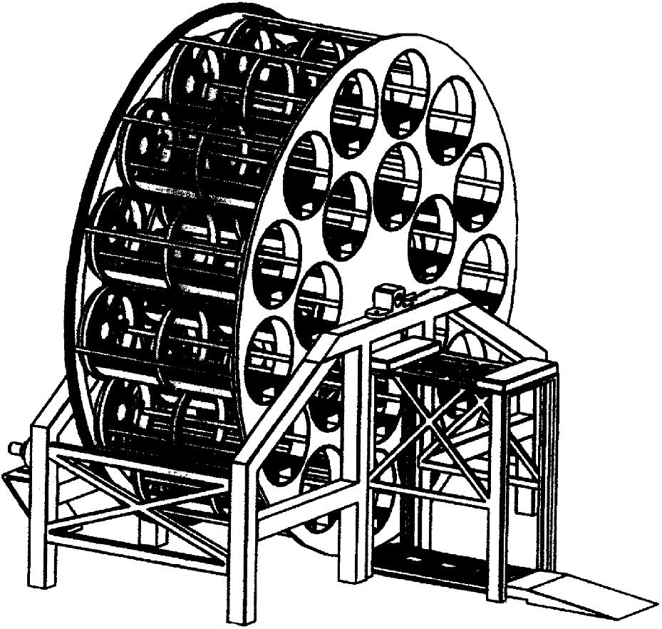 Rotary parking device